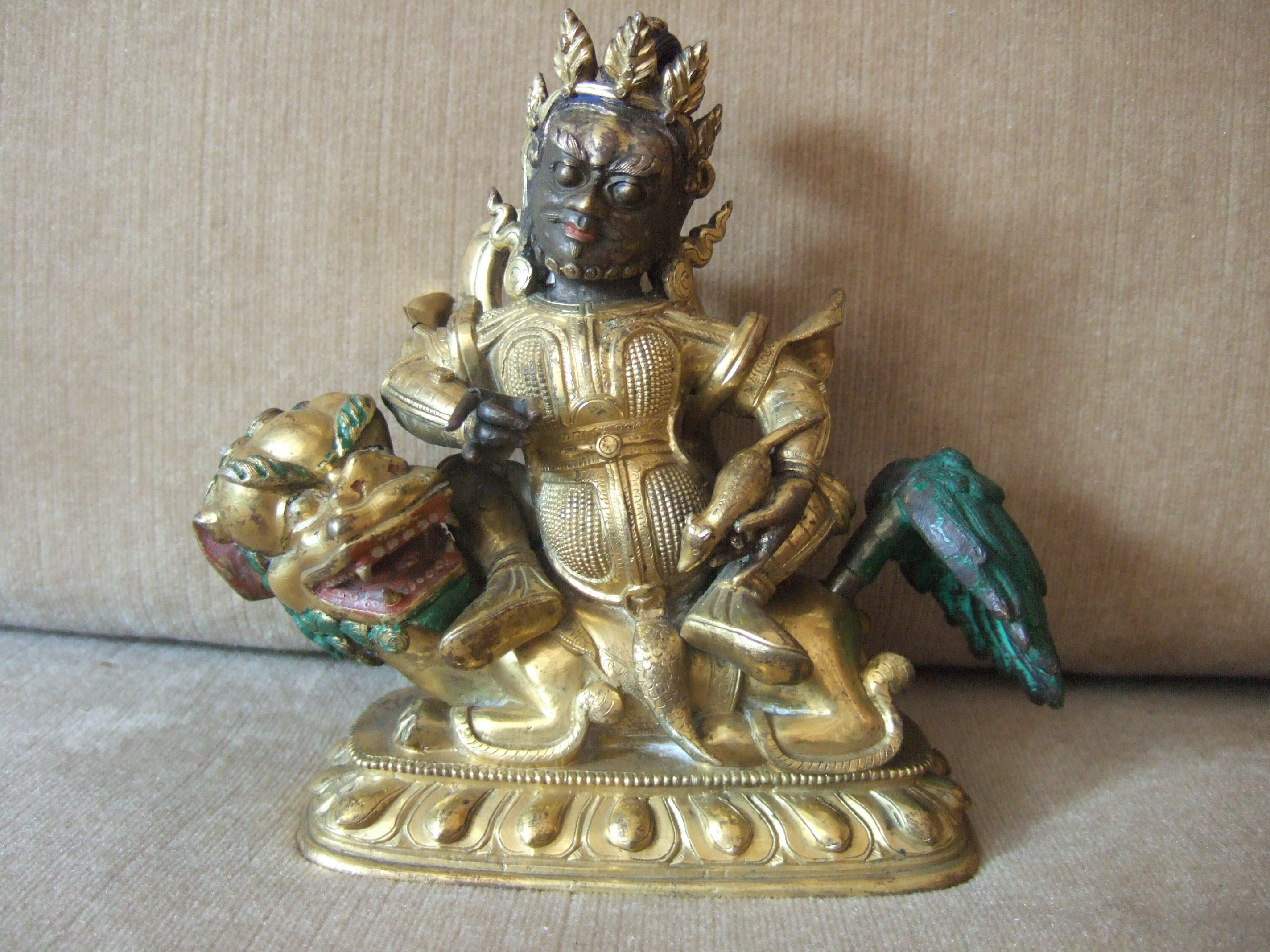 Tibetan guided bronze statue of Jambhala (Vaisravana), ca. 17th century